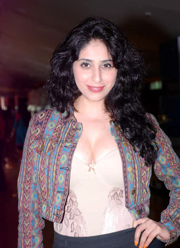 Neha Basin at Audio release of Life Ki Toh Lag Gayi